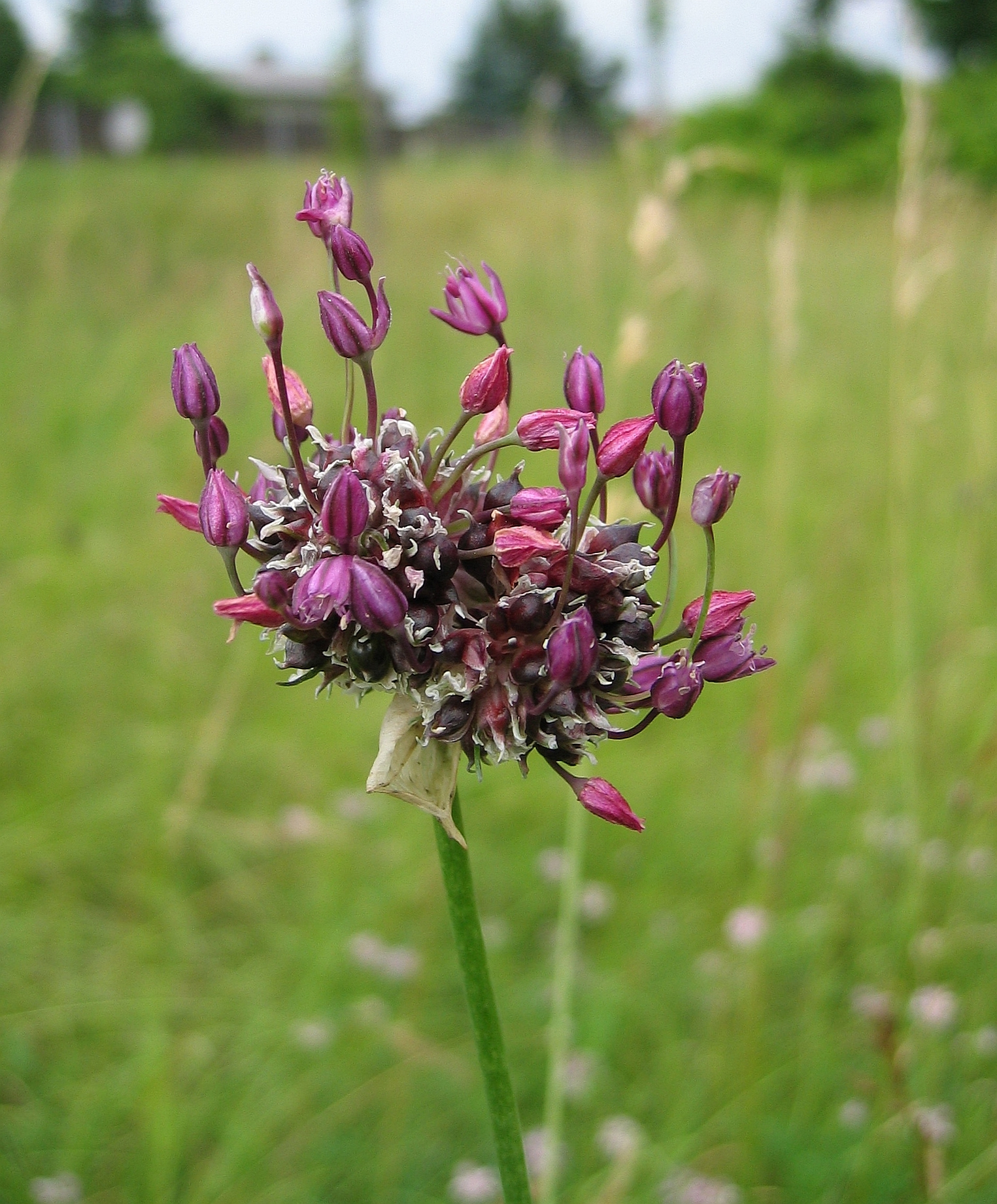 Probably Allium scorodoprasum, Welser Heide, Upper Austria, Austria